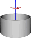 Moments of inertia. Image of thin cylinder rotating about CG.